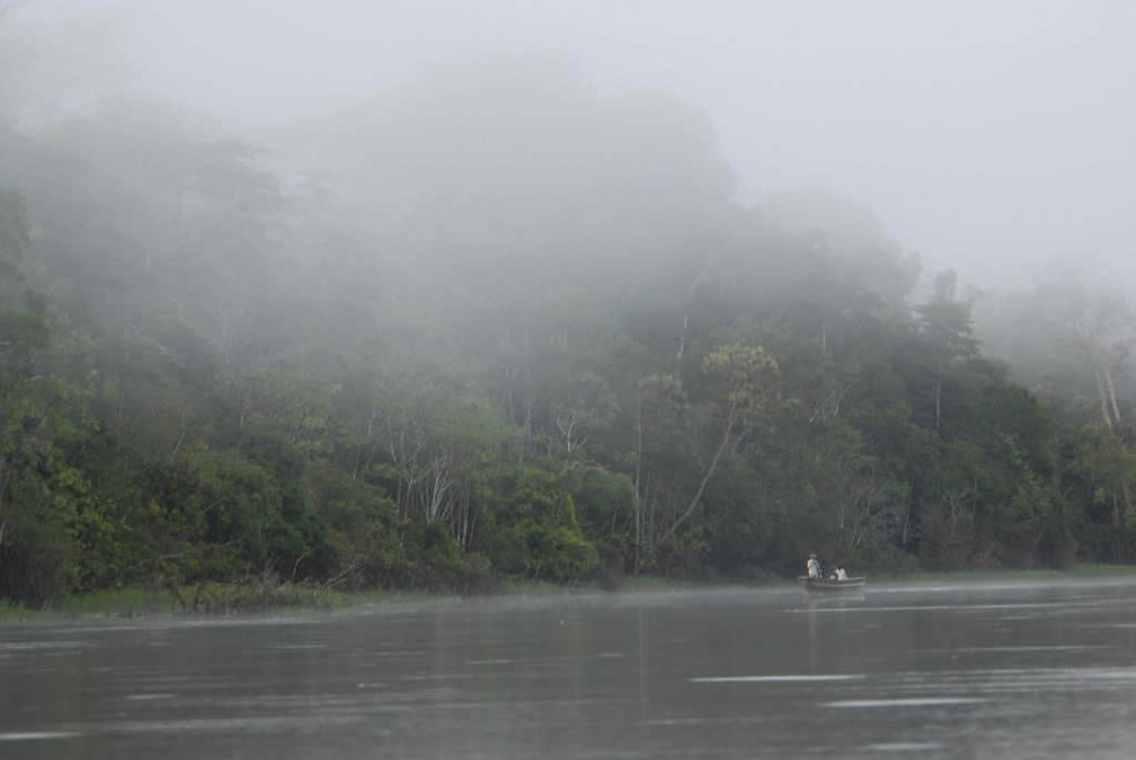 Tamshiyacu Tahuayo Regional Conservation Area, Iquitos, Amazon Rainforest, Peru.